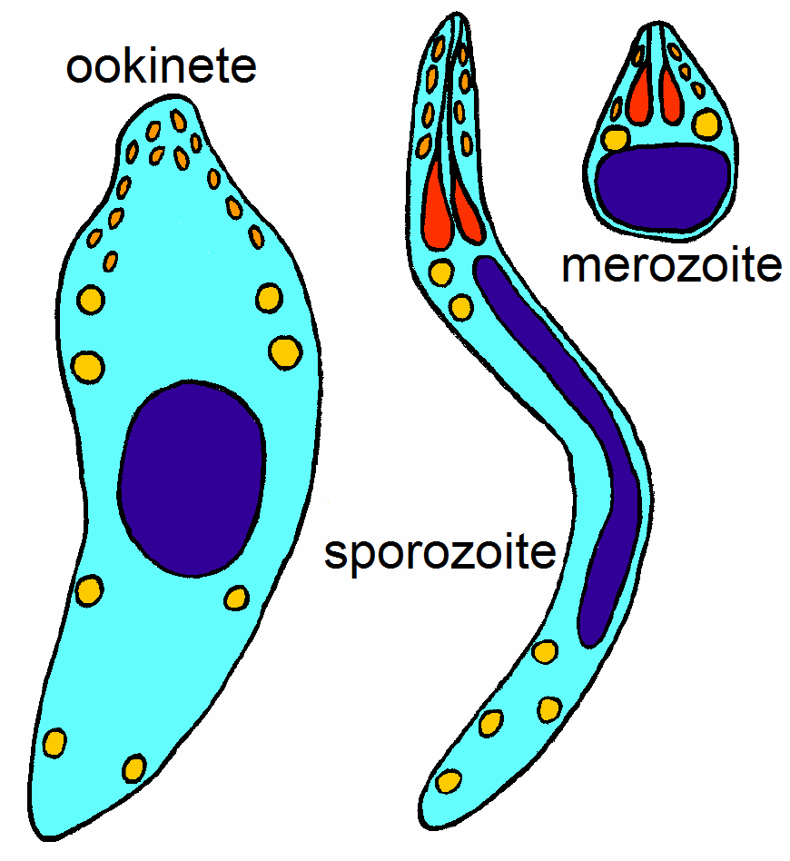 three cell types of the lifecycle of Apicomplexan parasites